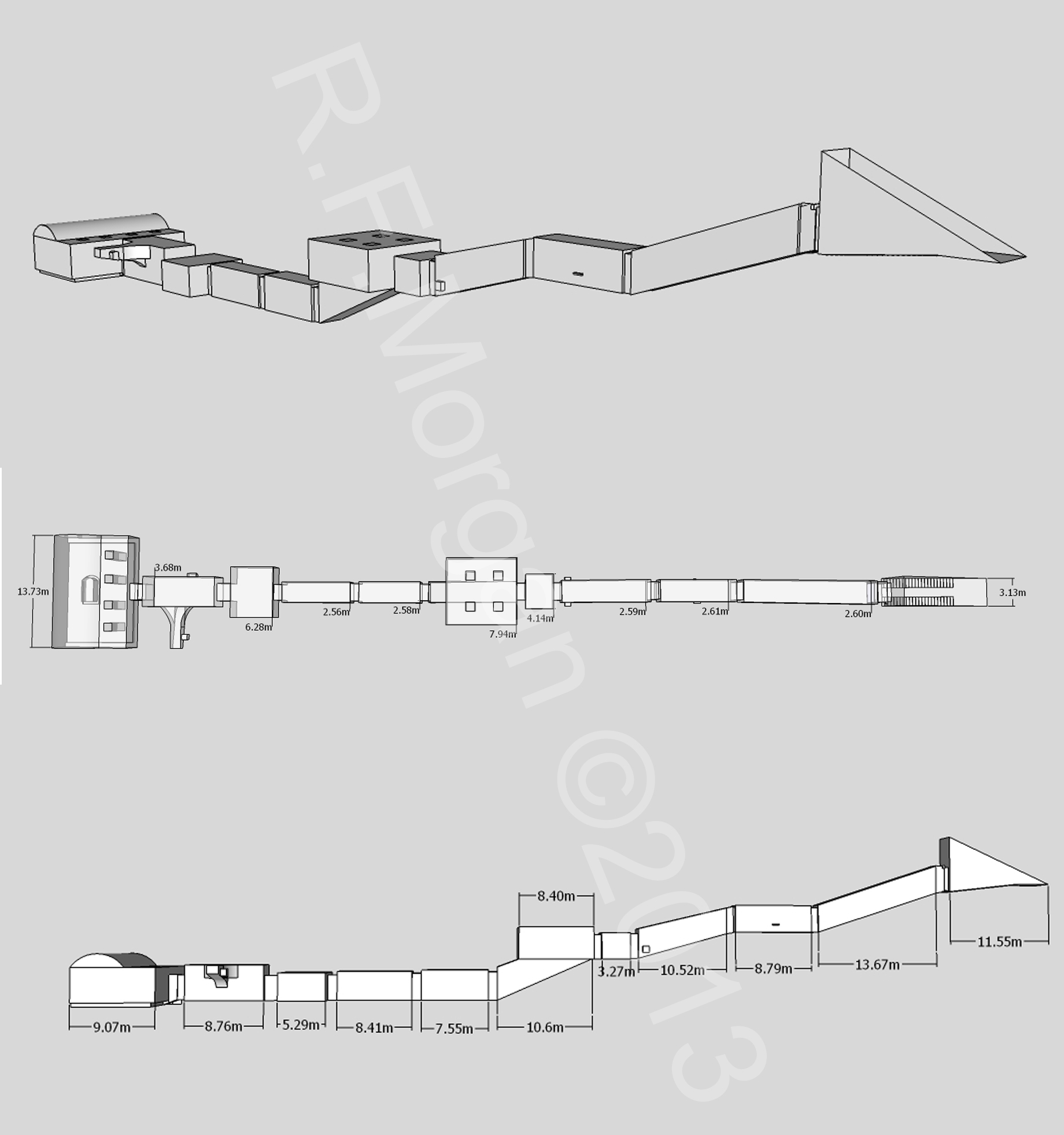 Isometric, plan and elevation images of KV47 taken from a 3d model